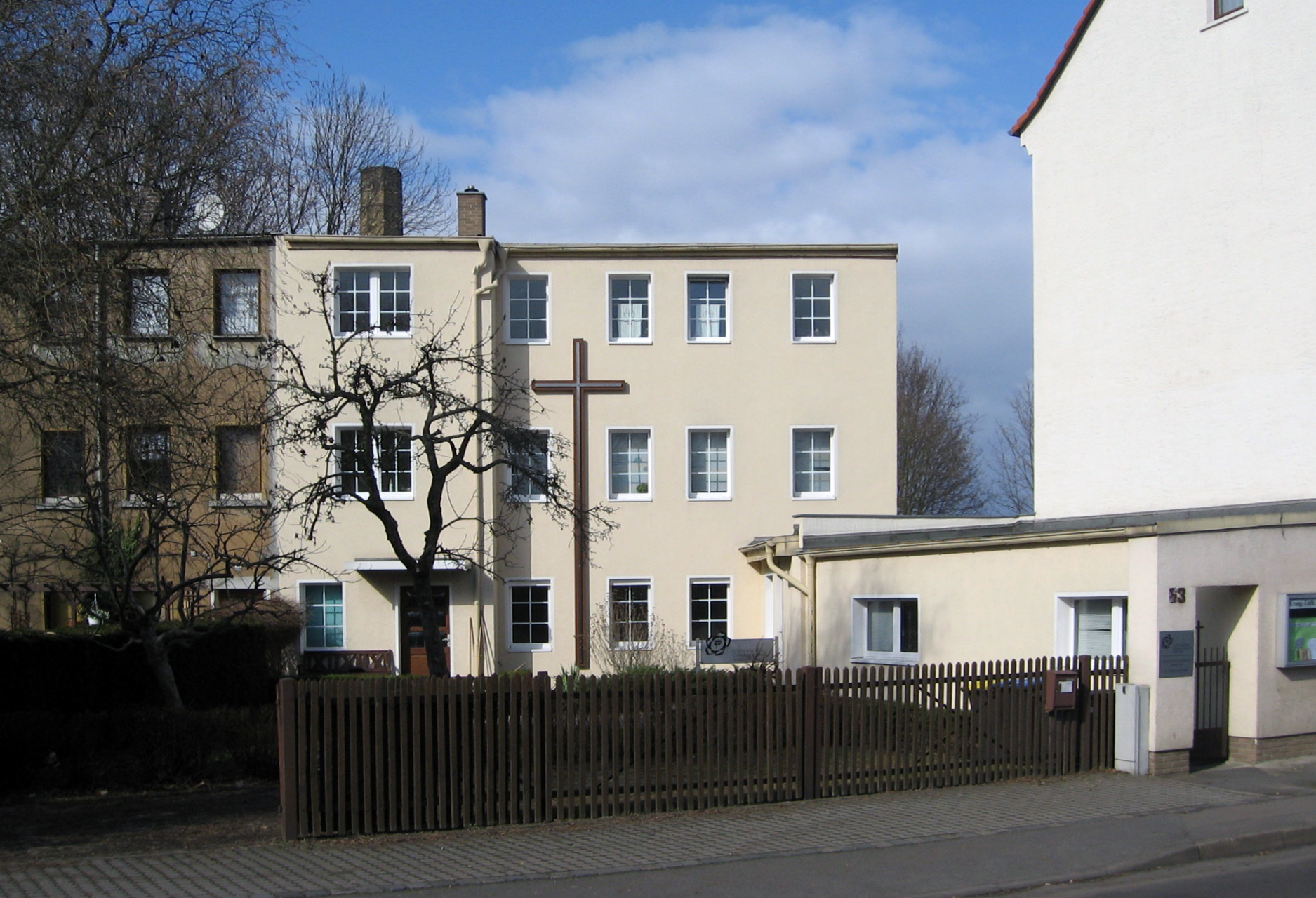 Community Center St. Trinity of the Evangelical Lutheran Free Church in Leipzig, Sommerfelder Strasse 63